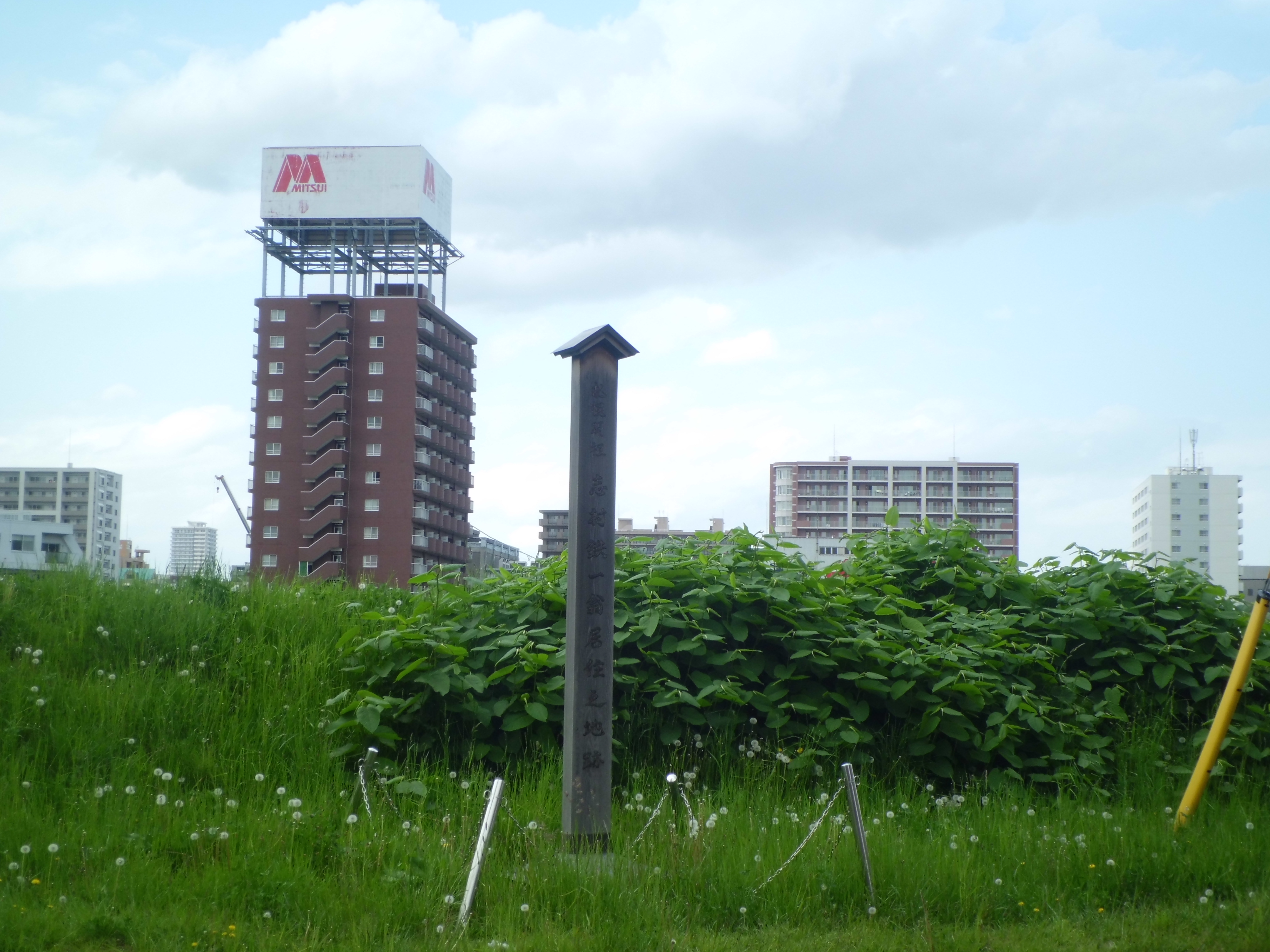 Monument to house of Tesuichi Shimura